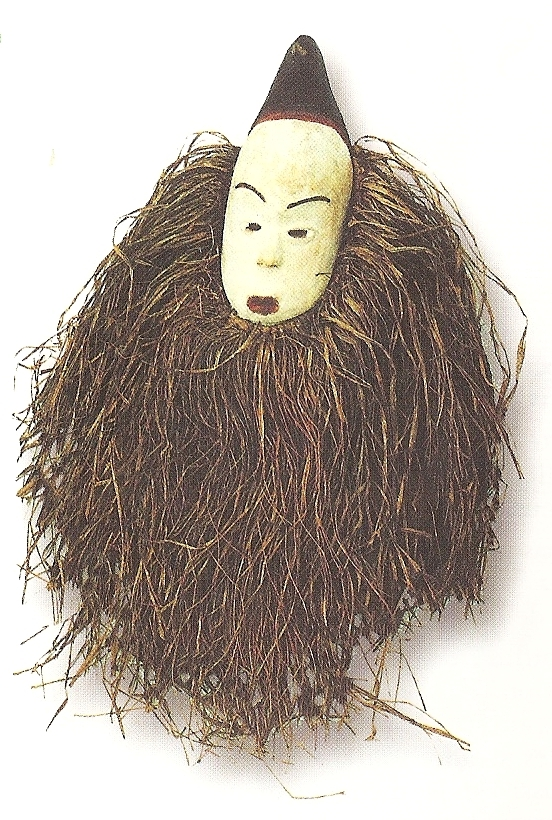 Bodi gabonese traditionnal mask from the Mitsogho ethny